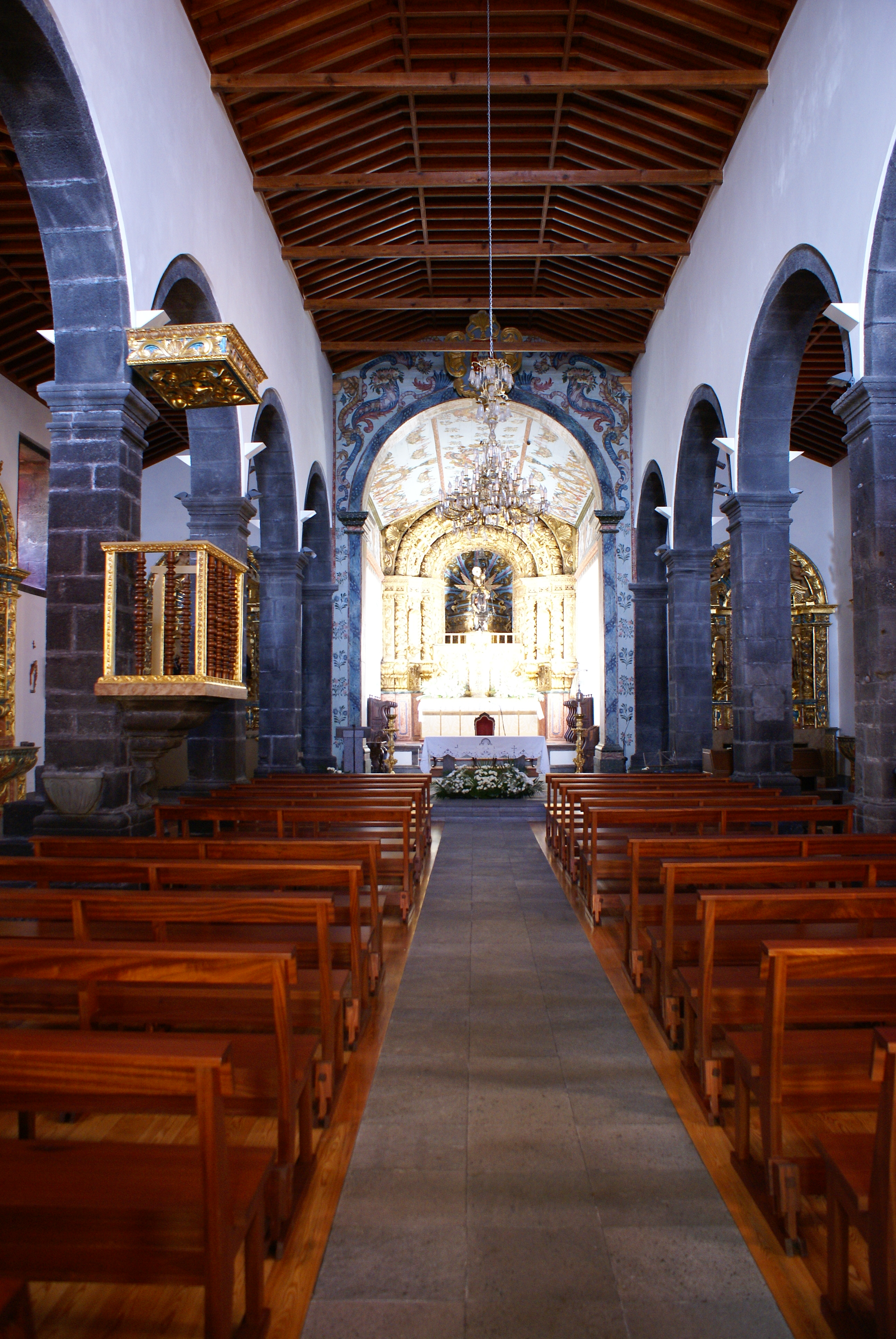 Central nave of the Church of São Roque, São Roque, Pico (Azores), Portugal